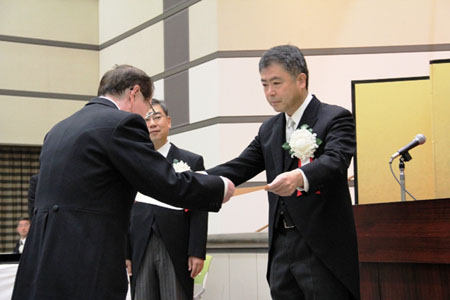 Mitsuru Sakurai, Senior Vice-Minister of Health, Labour and Welfare, conducted an investiture ceremony at the Central Government Building No.5 in Chiyoda Ward, Tōkyō Metropolis on November 13, 2012. (For terms of use, see 利用規約｜厚生労働省.)